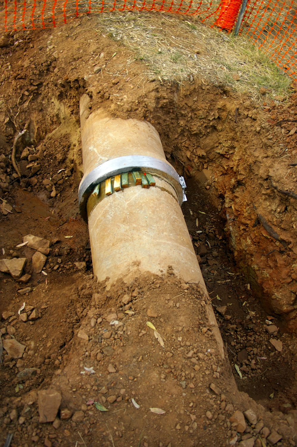 A leaking concrete water pipe located in Wagga Wagga, New South Wales.